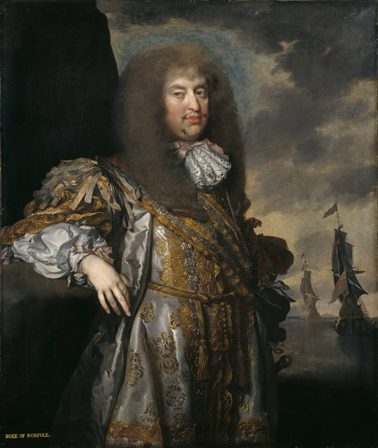 Portrait of Henry Howard, 6th Duke of Norfolk (1628-1684)